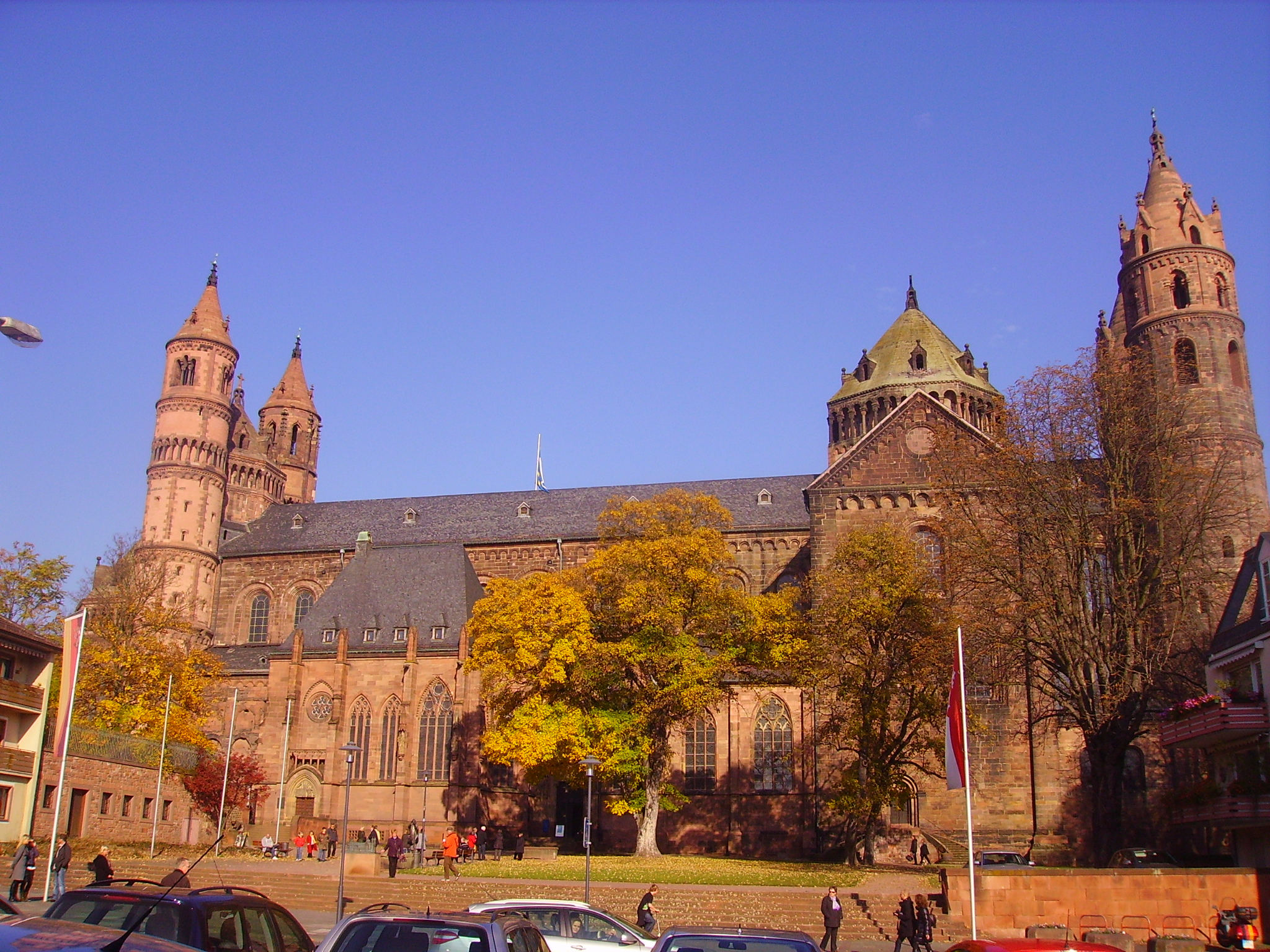 Imperial Minster Sts. Peter & Paul, Worrms